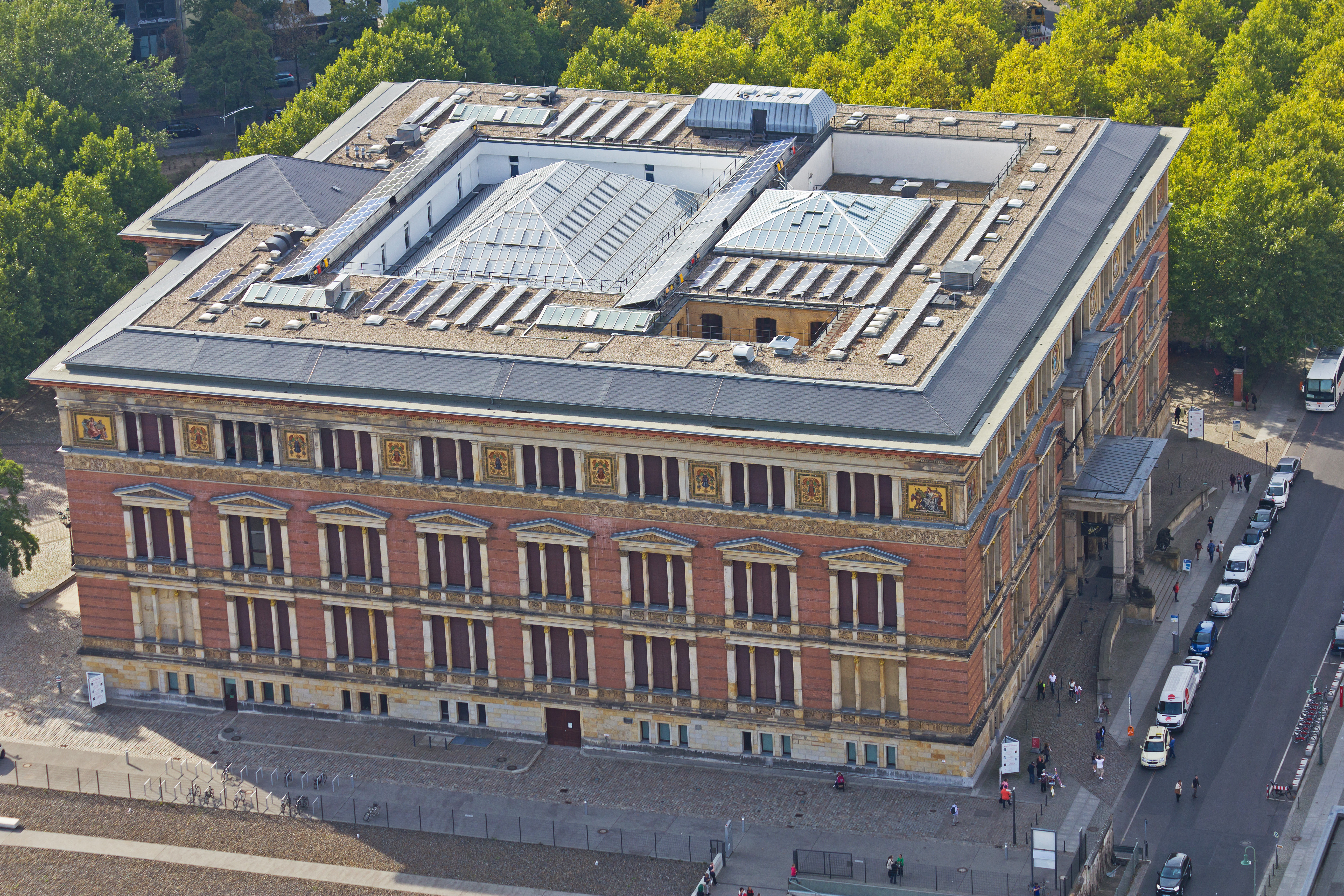 View from the Berlin Hi-Flyer